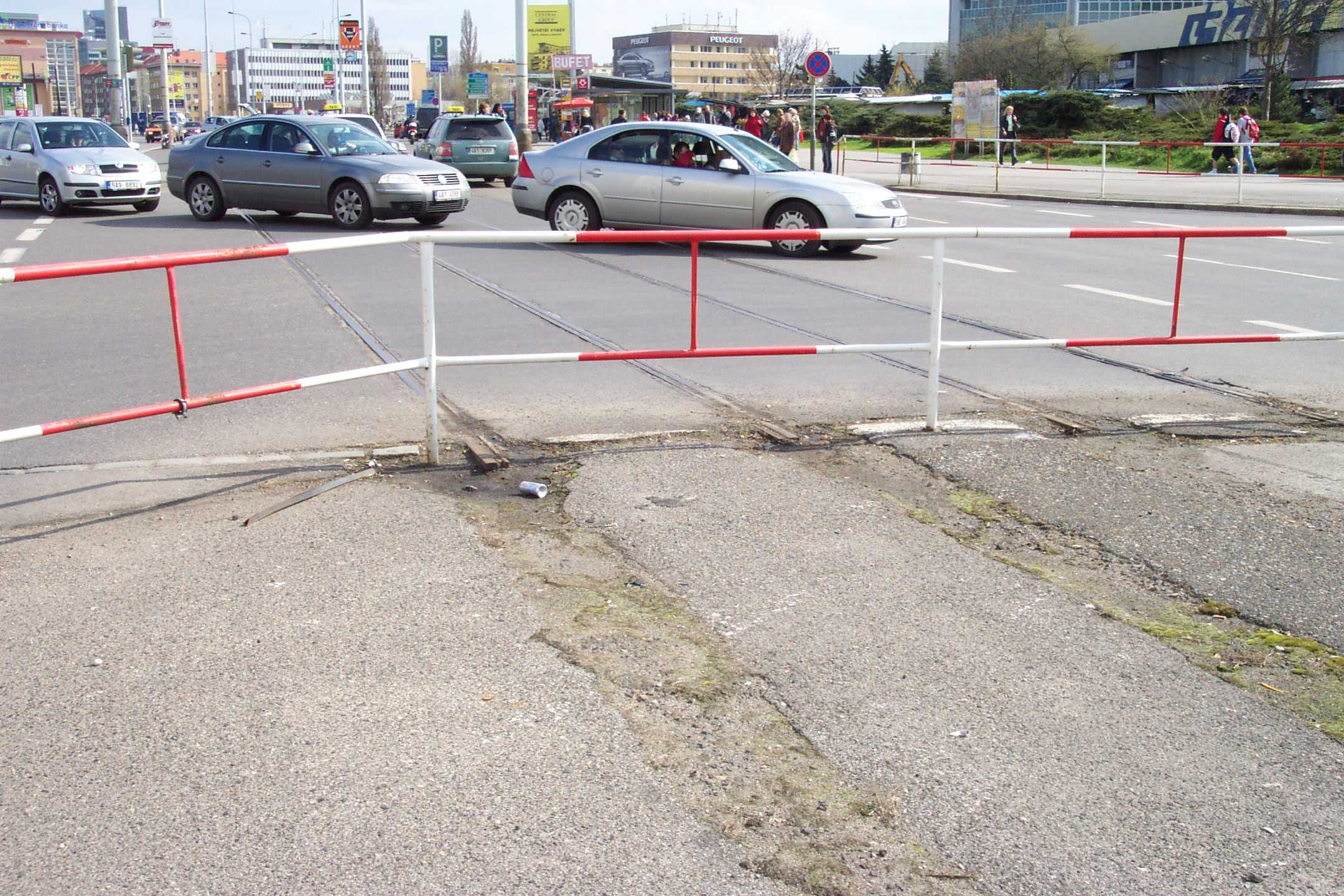 Former tram track in Pankrác, since 1974 no longer used